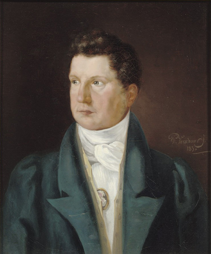 Portrait of Gerrit Verschuur (1787-1848)